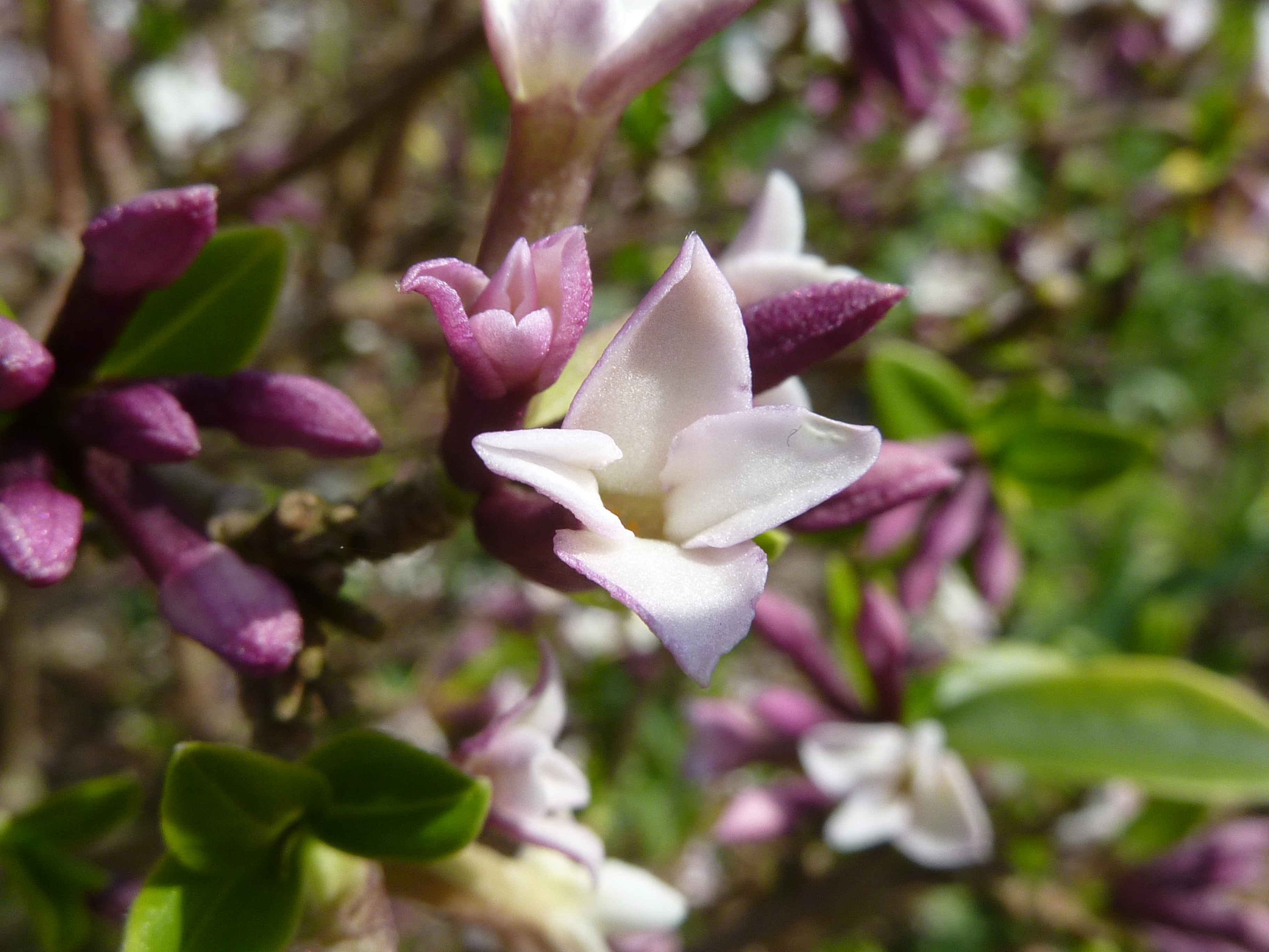 Taken in the Cambridge University Botanic Garden.